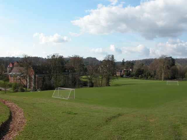 Bedales School, Steep.